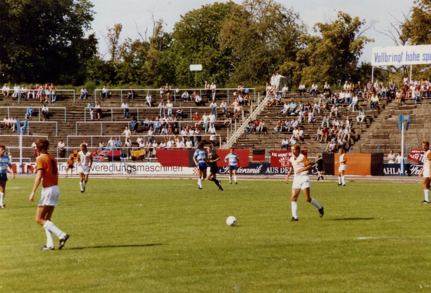 GDR League match BSG Wismut Gera vs BSG Motor Suhl, Friendship Stadium (Stadion der Freundschaft), Gera, August 1989